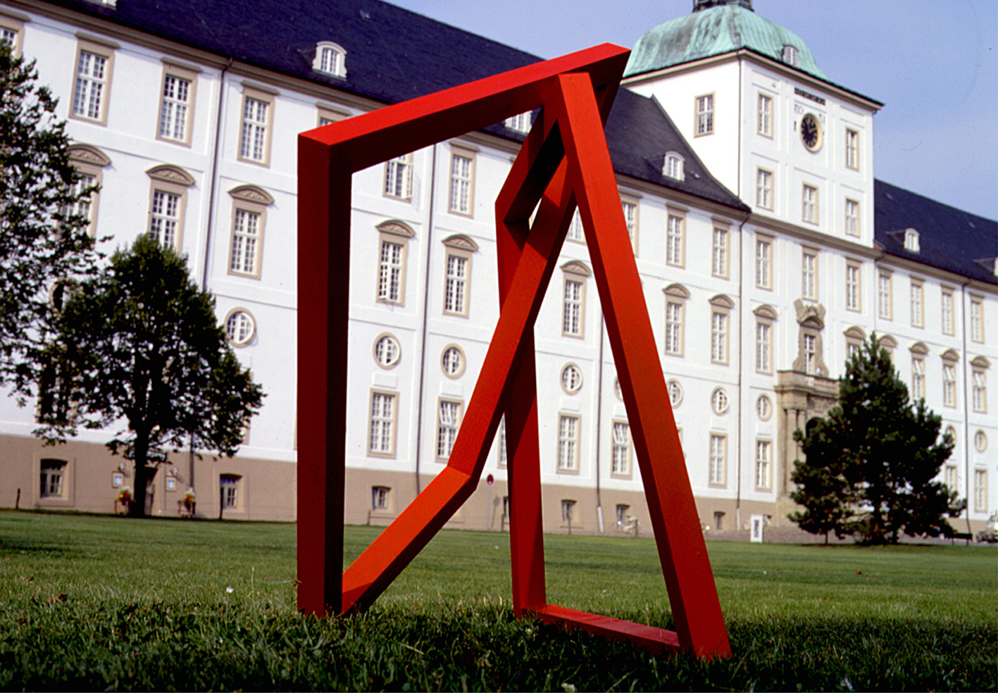 Sculpture Viereck und Viereck (1986), steel, by HD Schrader at Gottorf Castle, Schleswig